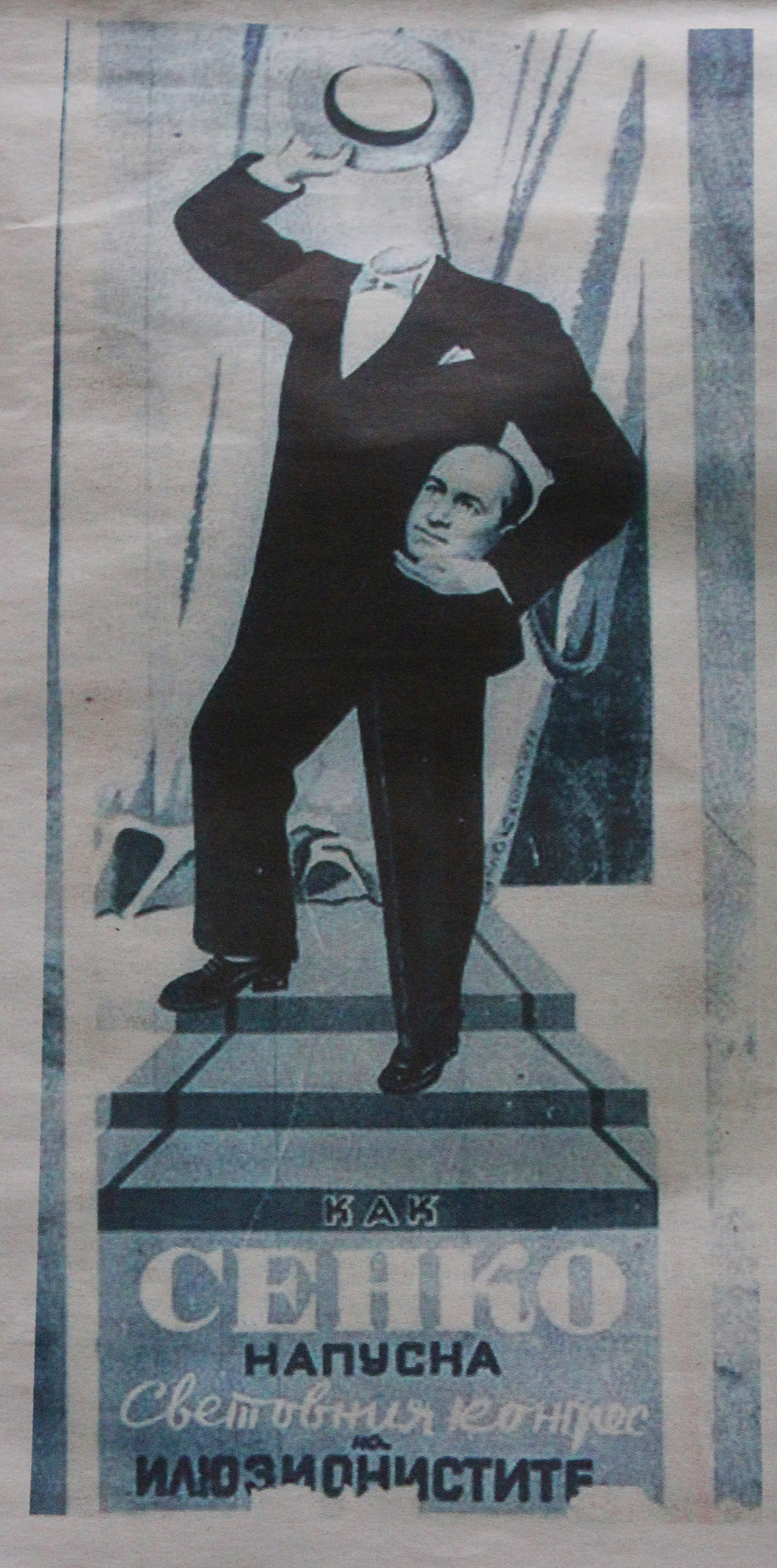 Mister Senko - poster. Bulgarian magician.